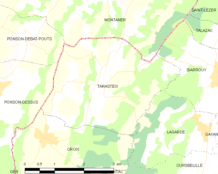 Map of French municipality